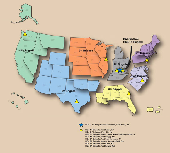 A map showing the different brigades of Army ROTC.